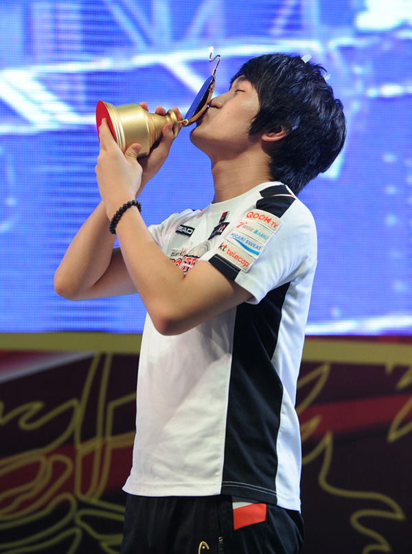 The finals of the 2010 Korean Air OnGameNet Starleague StarCraft competition in Shanghai China featuring Flash as champion.